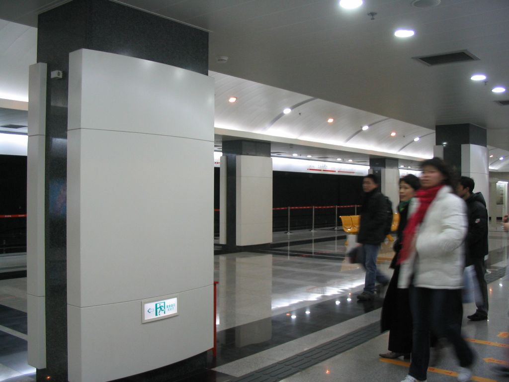 中山北路站-1號線月台 Line 1 Platform of Zhongshan Road (N) Station